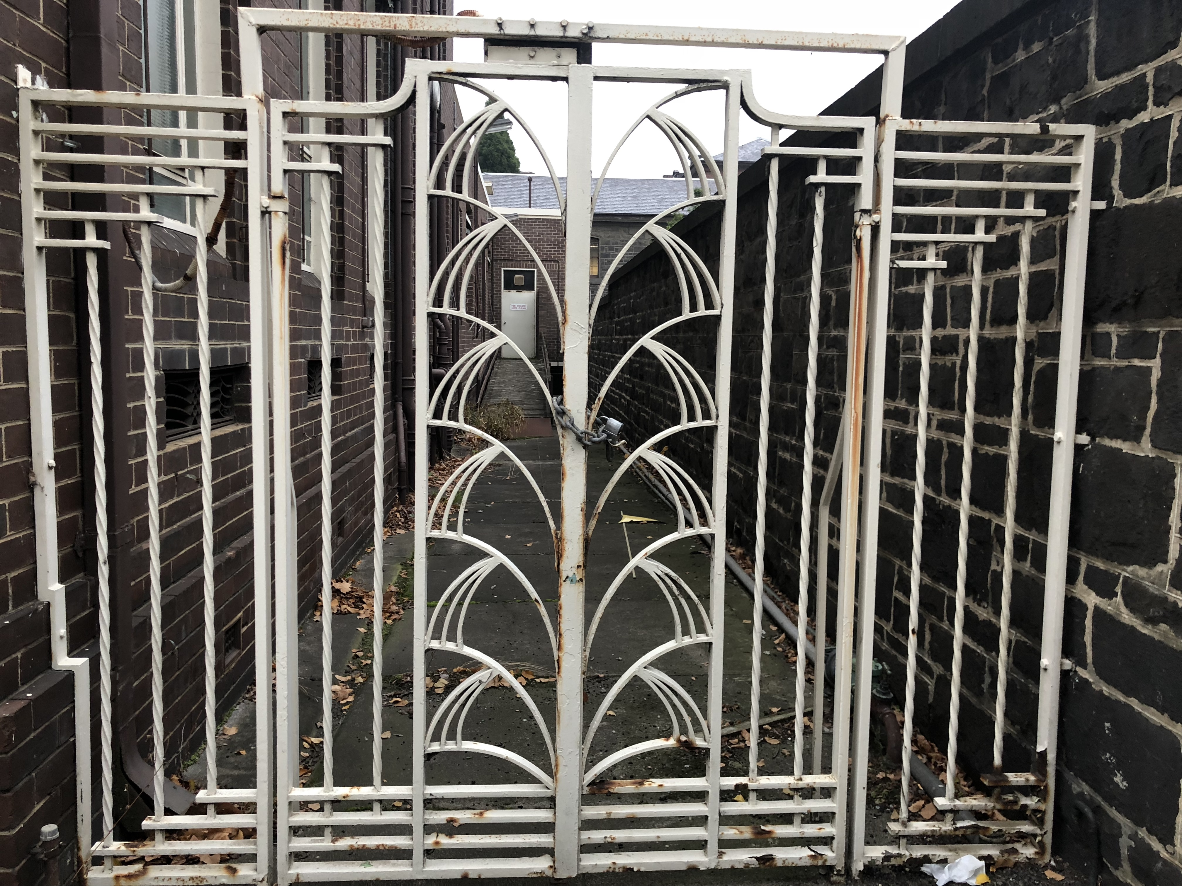 The ornate Art Deco gates of the former Repatriation Commission Outpatient Clinic